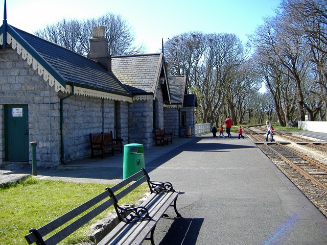 Castletown railway station